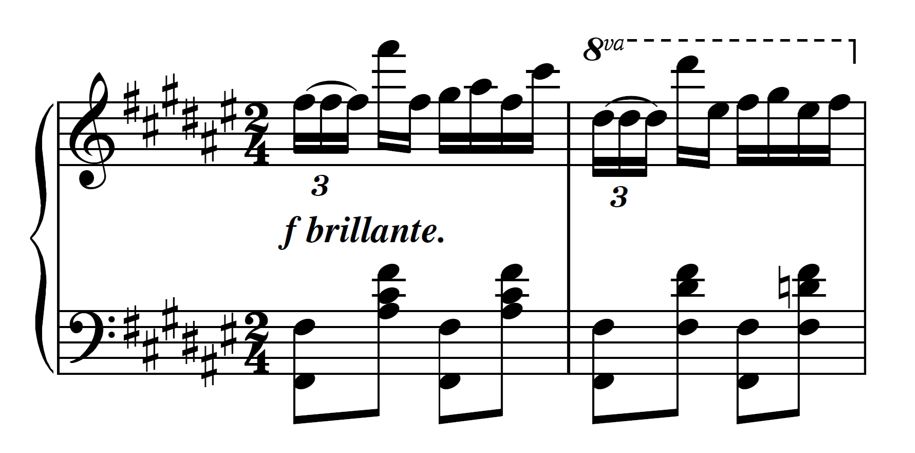 An excerpt of Gottschalk's "The Banjo"